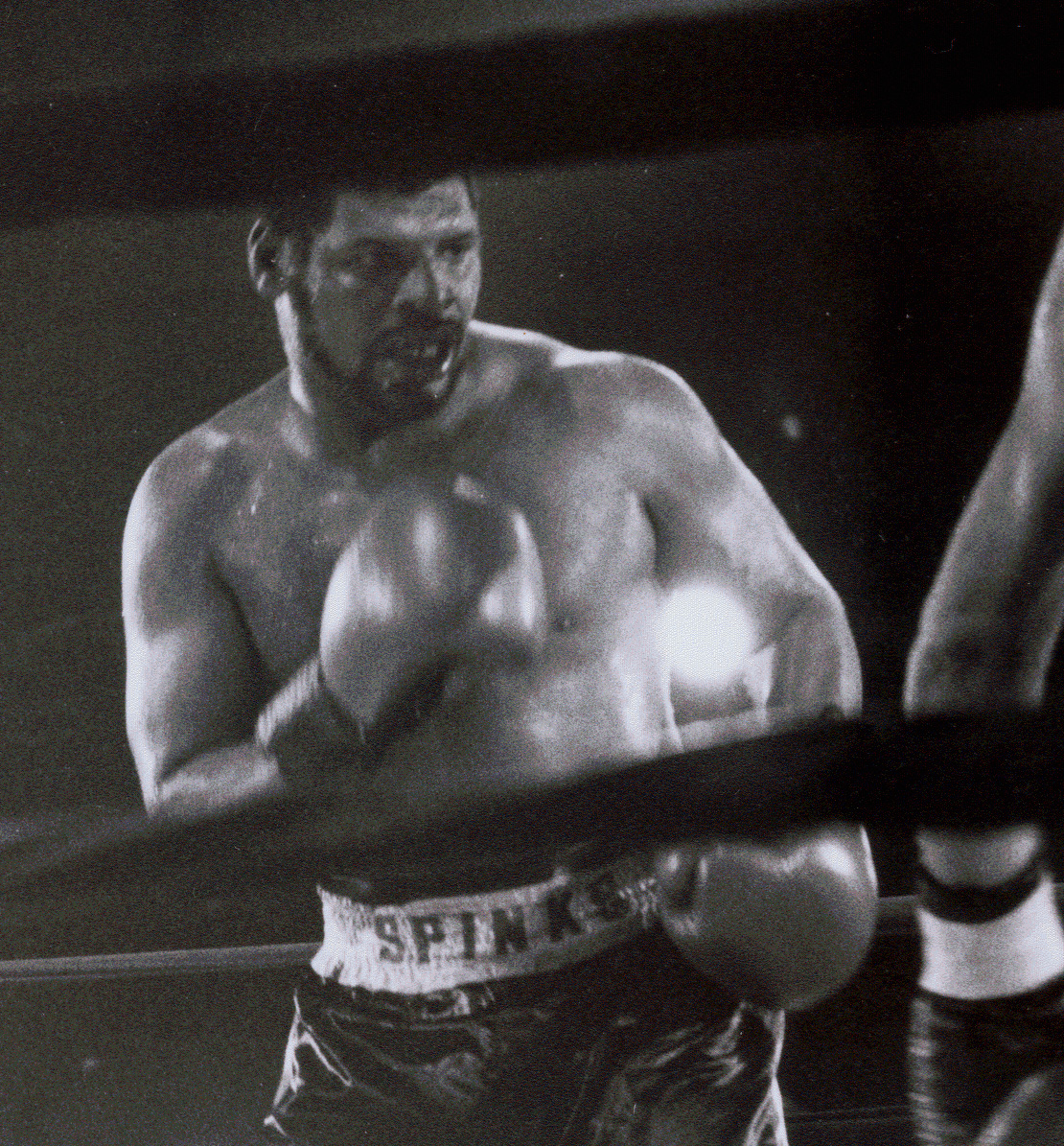 Leon Spinks boxer in St. Louis 1995